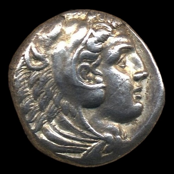 Tetradrachm with Head of Heracles right, clad in Nemean lion scalp headdress